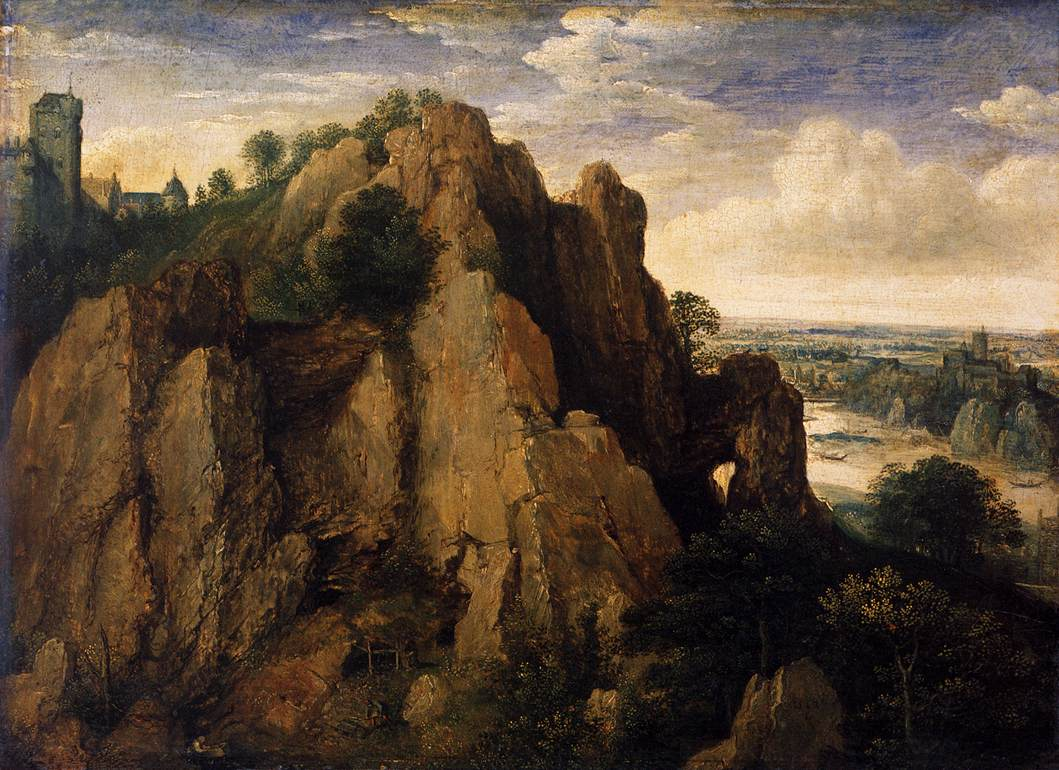 Mountainous landscape. The steep cliffs on the foreground are partly covered in trees. At the foot of the cliffs two men are working. To the left a castle stands on the top of a hill. To the right a river flows through a valley.